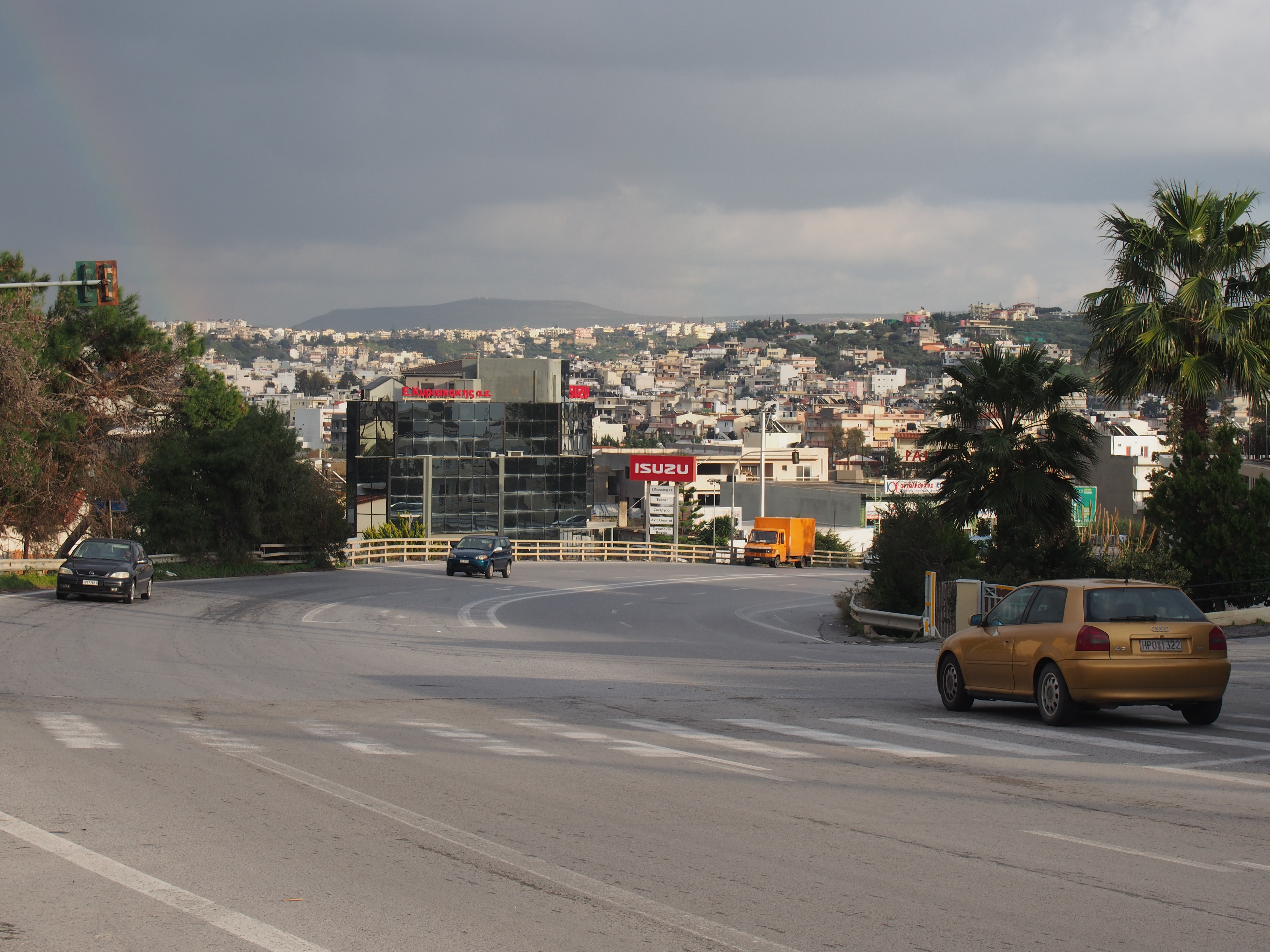 National road 97 (Heraklio-Festos-Agia Galini) at the west end of Heraklio (Stavromenos region)